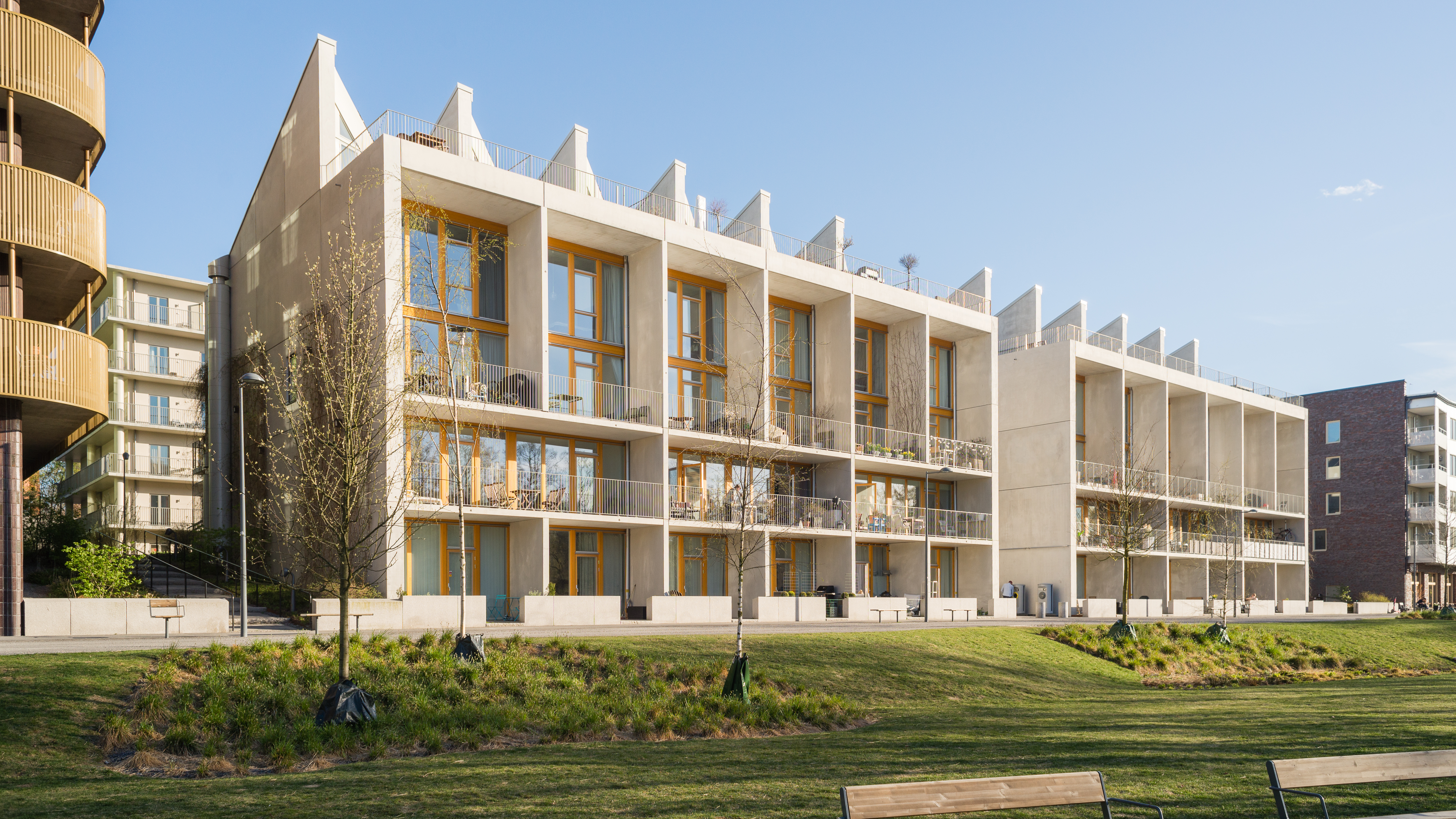 Stora Sjöfallet 2 is part of the city block Stora Sjöfallet in Norra Djurgårdsstaden, Stockholm. Sjöfallet 2 consists of 2 apartment buildings, built in 2016. Architects: JoliArk.